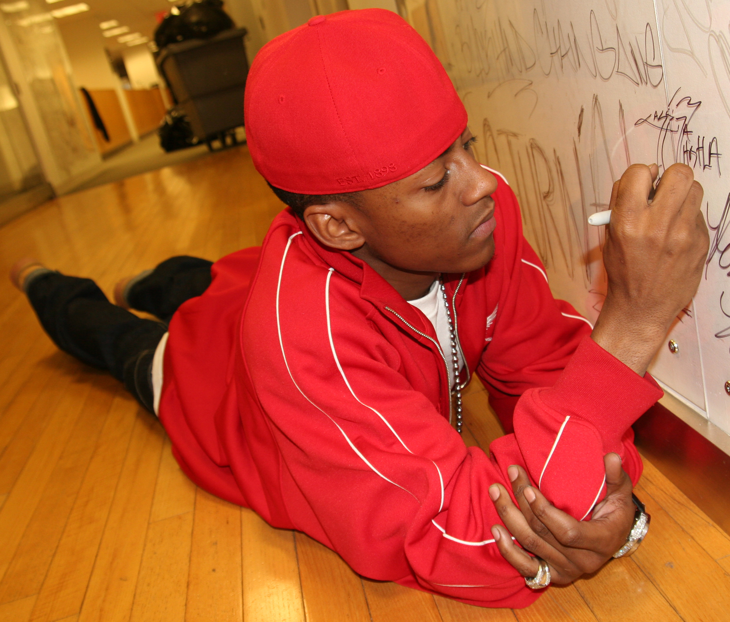 Cassidy (rapper) signing his name in May 2005.